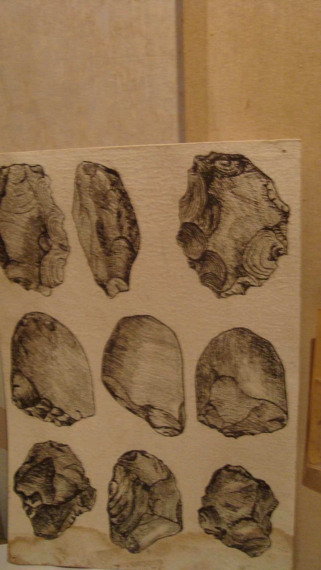 Artifacts found in the Azykh cave. Location: museum of Hadrout, Republic of Mountainous Karabakh (Artsakh) / Azerbaijan.